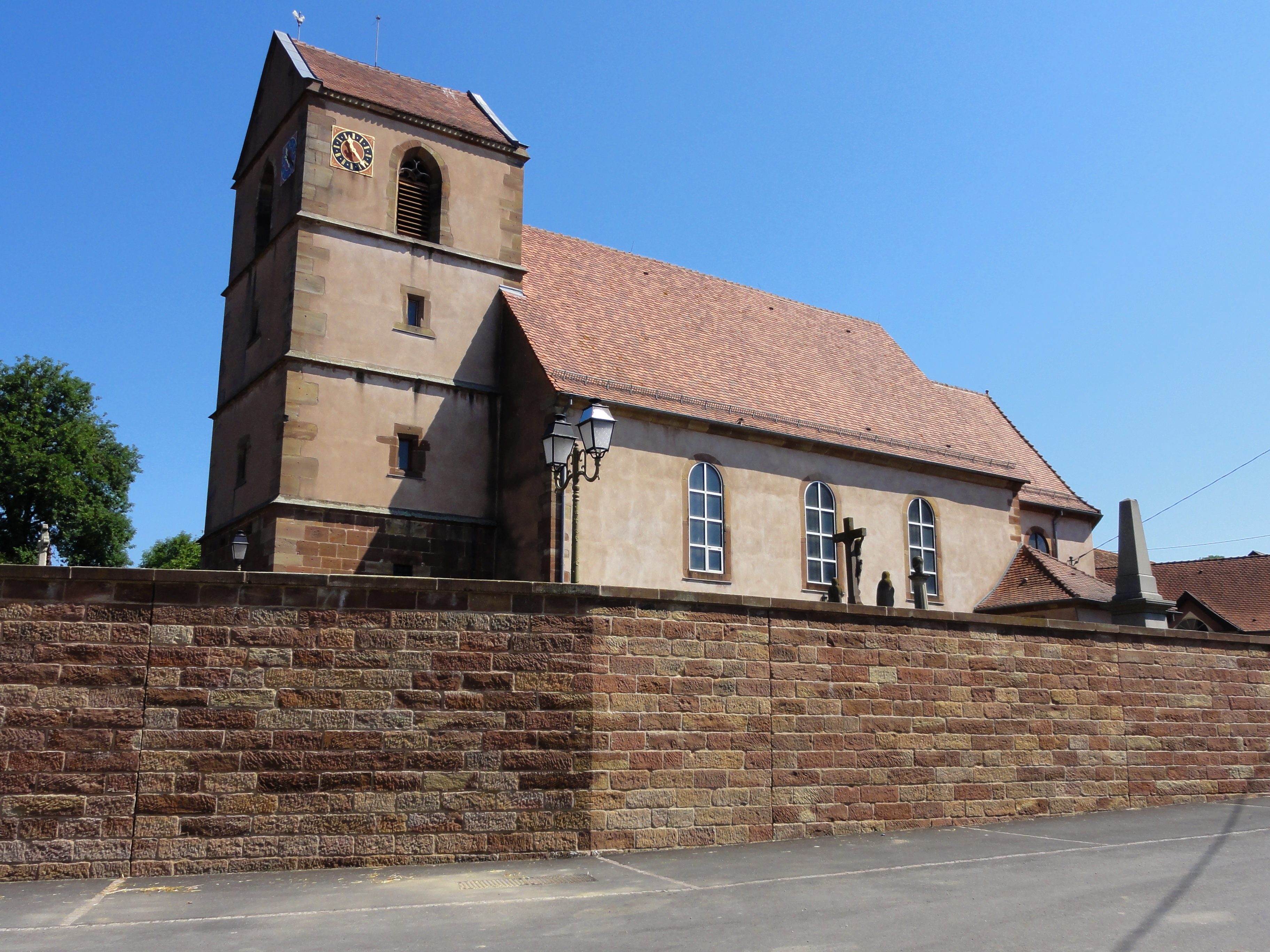 Alsace, Bas-Rhin, Église Saint-Jacques-le-Majeur: It is indexed in the Base Mérimée, a database of architectural heritage maintained by the French Ministry of Culture, under the references PA00084778 and IA67007588.